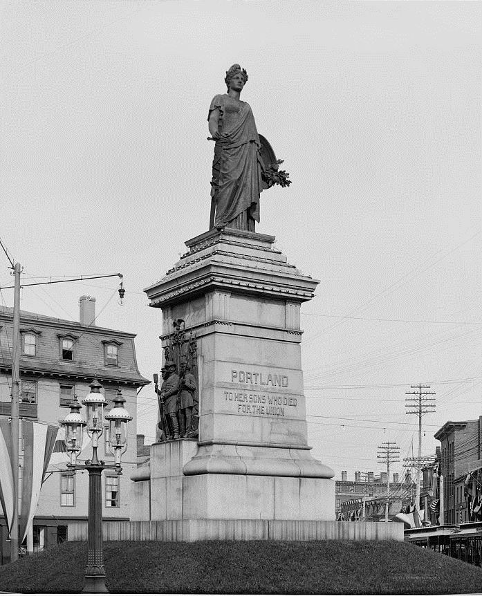 Soldiers' Monument, Monument Square, Congress Street, Portland, Maine.